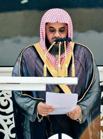 Saud Shuraim doing the Jum'uah Khutbah